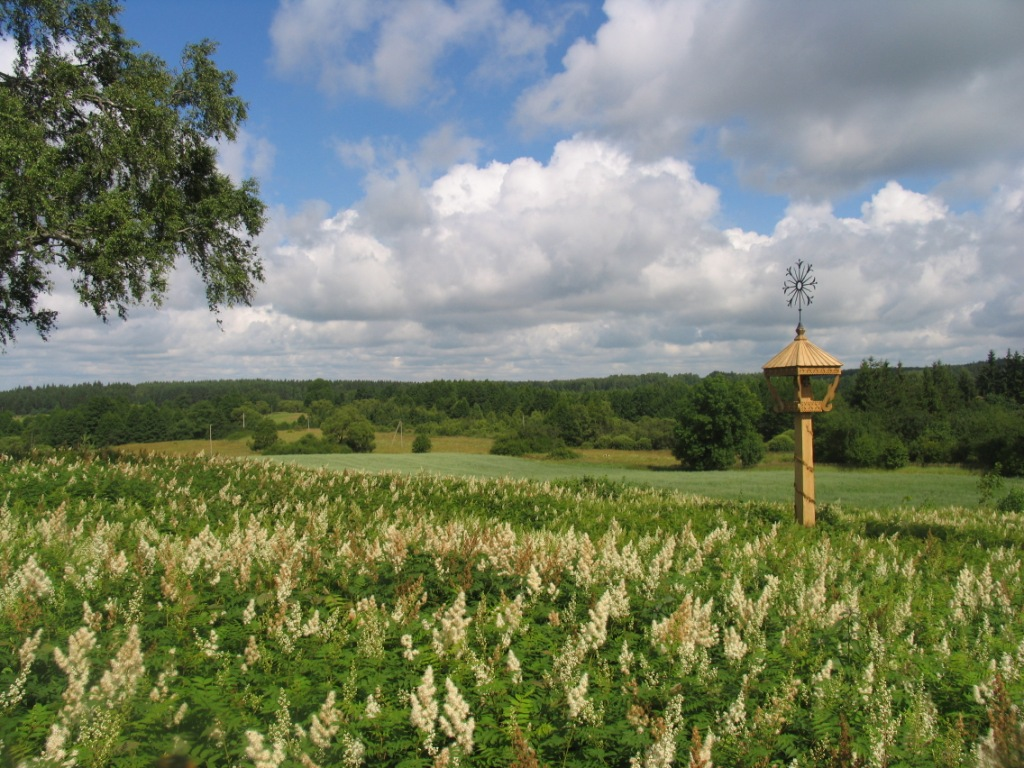 Hilly lands